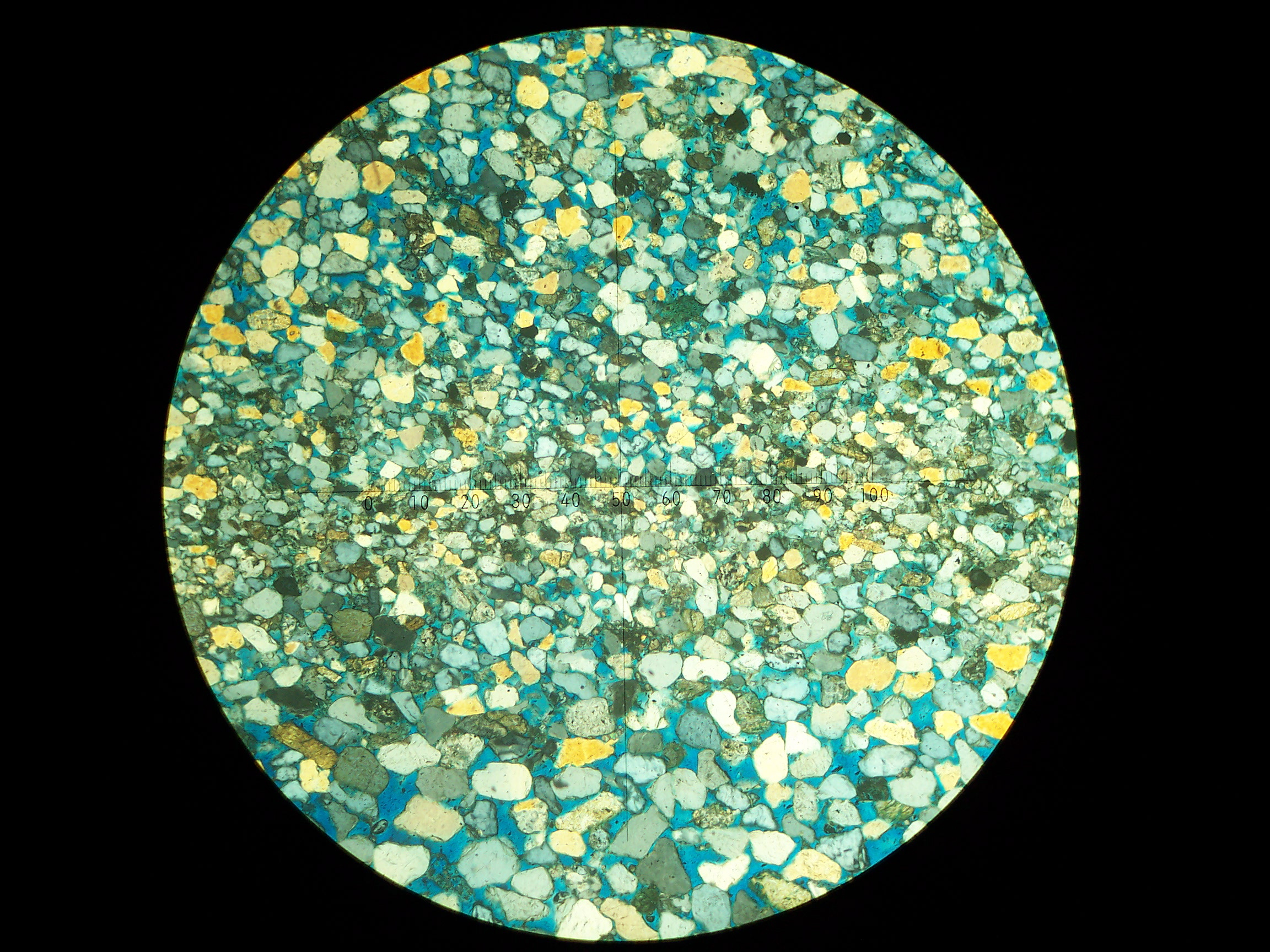 Thin section of sandstone core as viewed through one of the USGS Core Research Center's microscopes